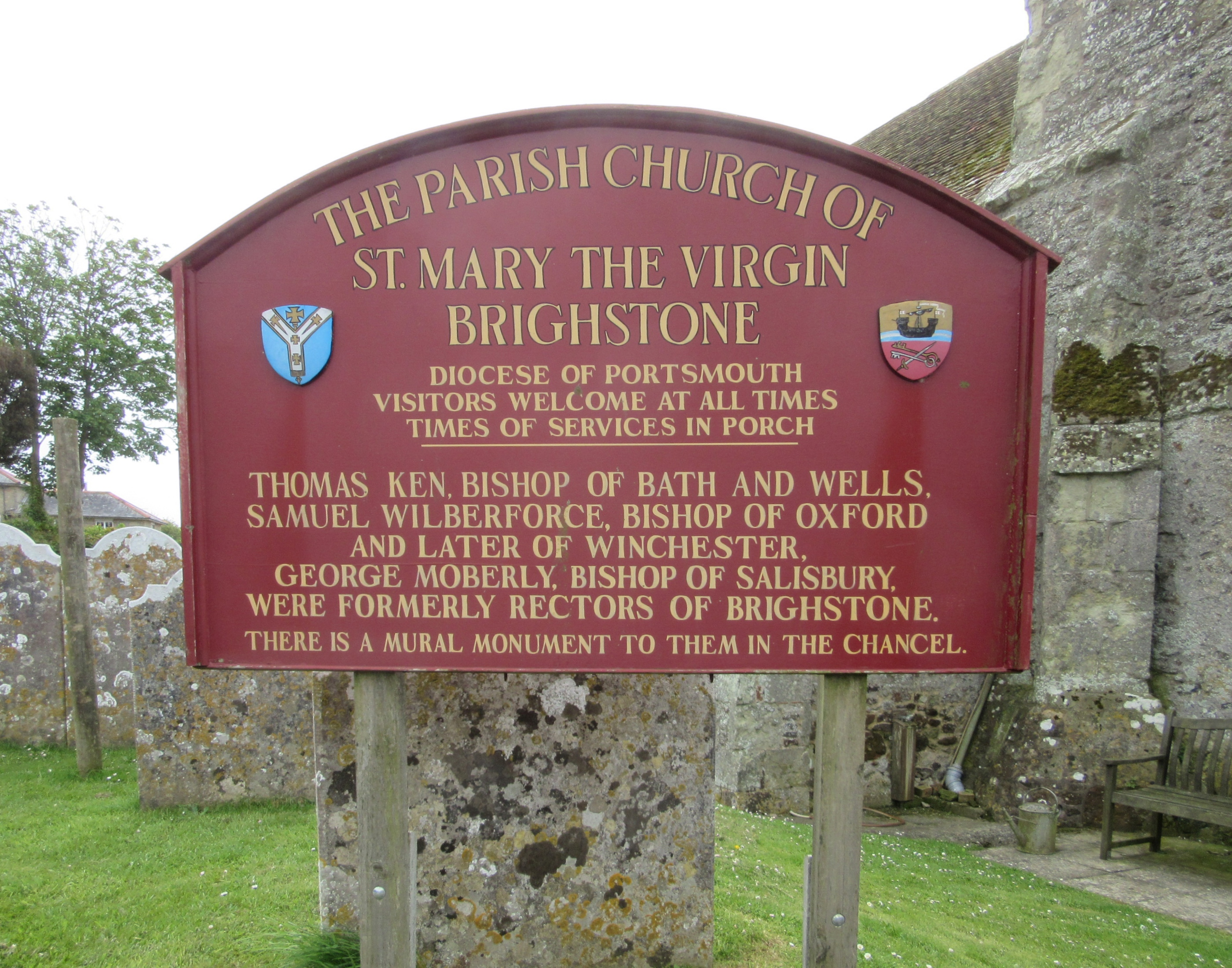 Signboard at St Mary the Virgin's Church, Main Road, Brighstone, Isle of Wight, England. The Anglican parish church of the village of Brighstone.